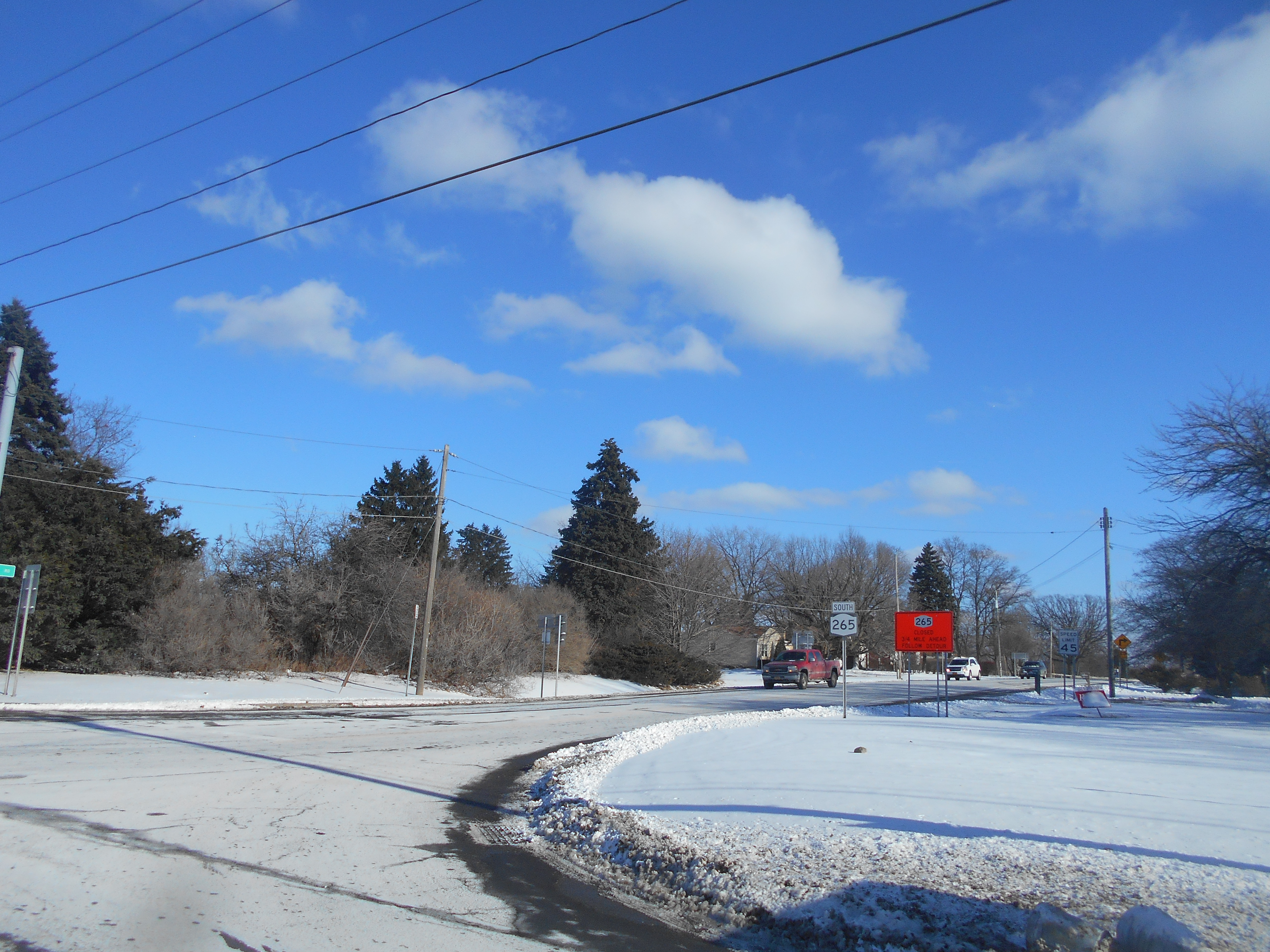 New York State Route 265 southbound from a junction with New York State Route 104 in Lewiston, New York.